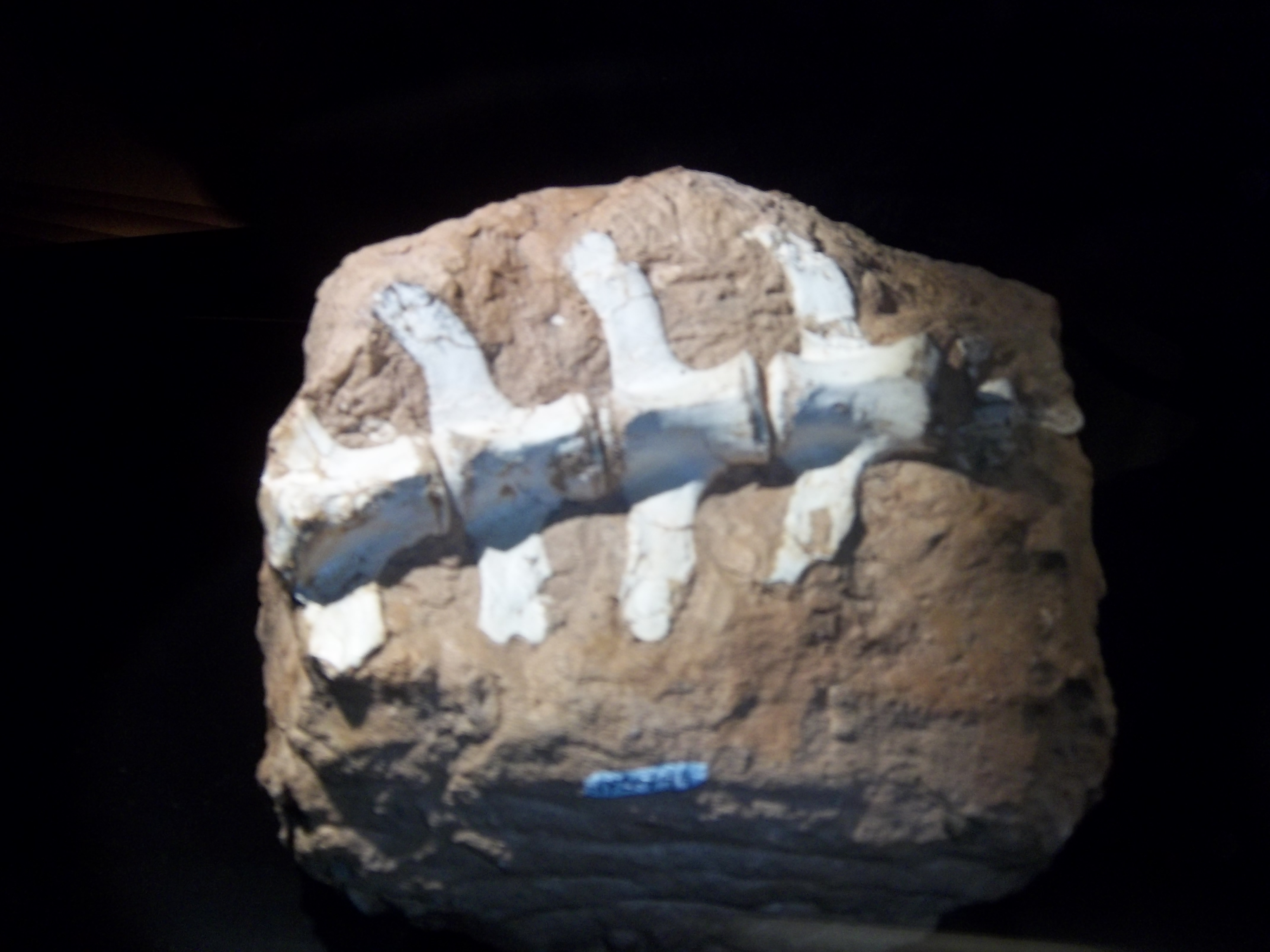 Fragment of a fossilised vertebral column belonging to Tragoportax gaudryi